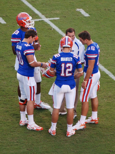 Tim Tebow and the other Florida Gators quarterbacks gather in pre-game warm-ups prior to their 2007 loss to Auburn University.